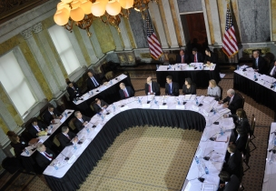 Third meeting of the Financial Stability Oversight Council on January 18, 2011, in the Cash Room of the Treasury Building in Washington, D.C.